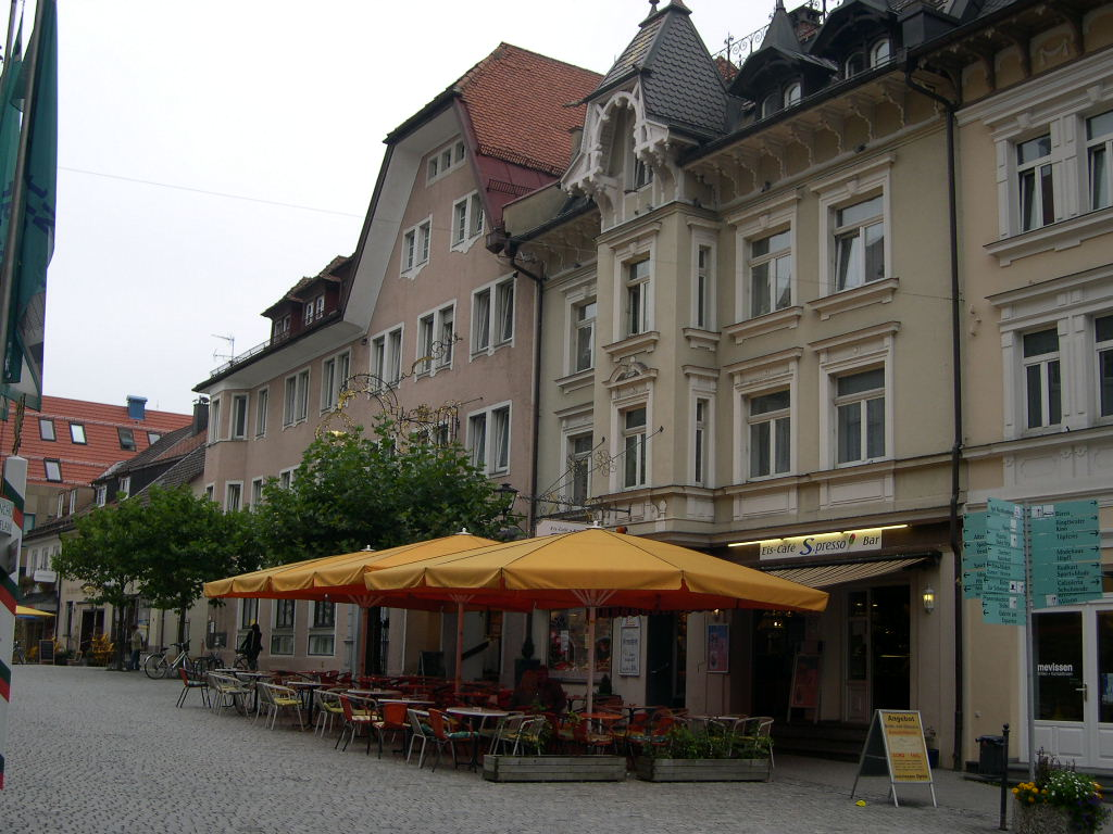 Image of cafe on main street in Isny im Allgau taken September 2006